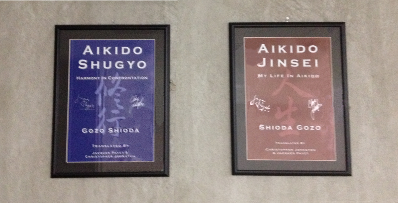 This photograph shows two posters that hang on the wall of Mugenjuku Dojo in Kyoto, Japan. They are enlarged cover designs for the books "Aikido Shugyo" and "Aikido Jinsei" with the autographs of translators Jacques Payet and Christopher Johnston. **This image has been manipulated by its author in order to obscure some reflection and glare in the original photograph.**